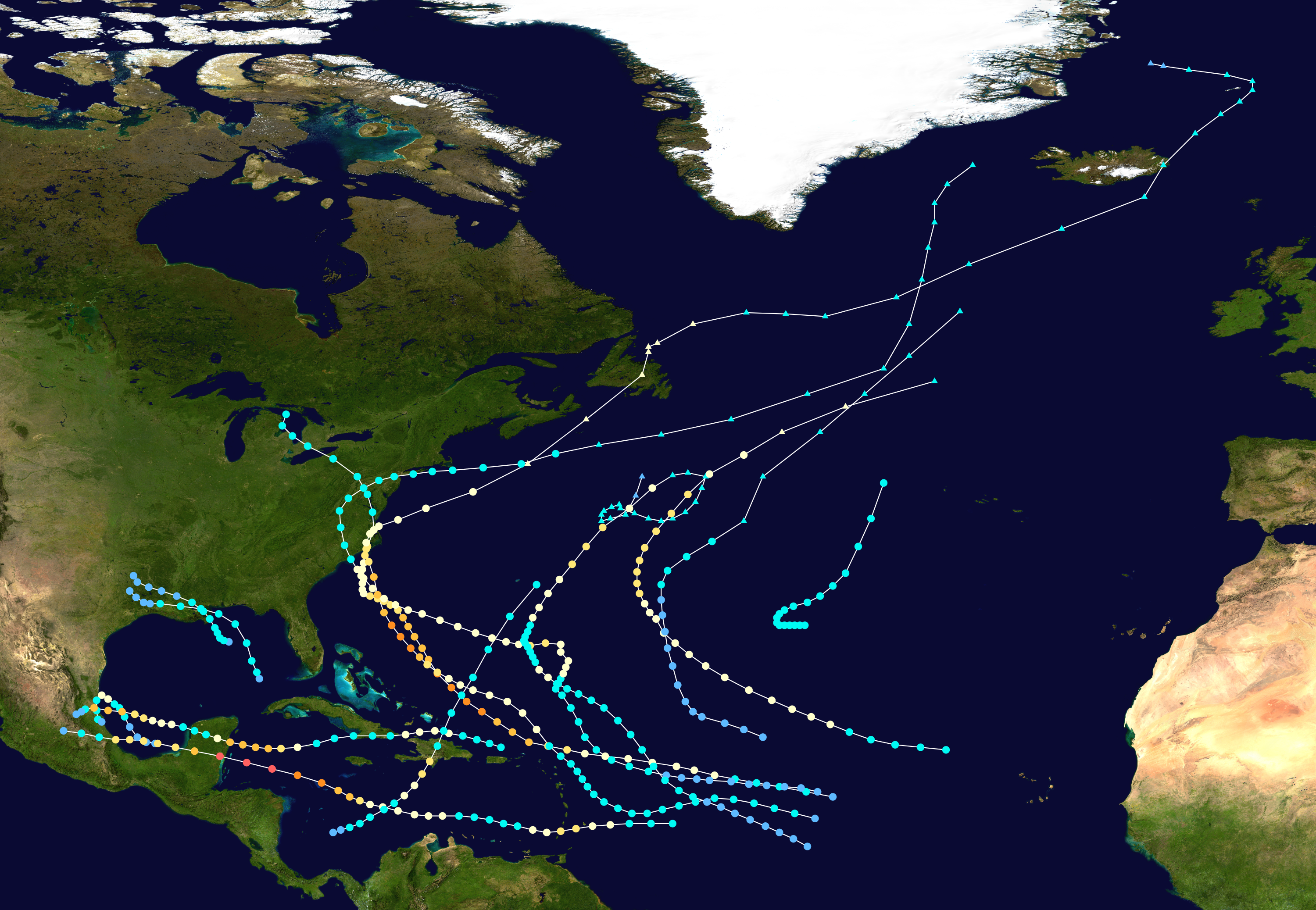 This map shows the tracks of all tropical cyclones in the 1955 Atlantic hurricane season. The points show the location of each storm at 6-hour intervals. The colour represents the storm's maximum sustained wind speeds as classified in the Saffir-Simpson Hurricane Scale (see below), and the shape of the data points represent the nature of the storm. Saffir–Simpson hurricane wind scale Tropical depression≤38 mph≤62 km/h Category 3111–129 mph178–208 km/h Tropical storm39–73 mph63–118 km/h Category 4130–156 mph209–251 km/h Category 174–95 mph119–153 km/h Category 5≥157 mph≥252 km/h Category 296–110 mph154–177 km/h Unknown Storm typeTropical cycloneSubtropical cycloneExtratropical cyclone / Remnant low / Tropical disturbance